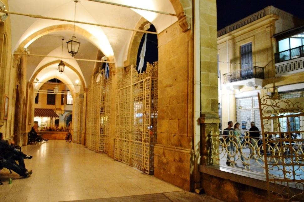 Faneromeni Square and Church by night Nicosia Republic of Cyprus